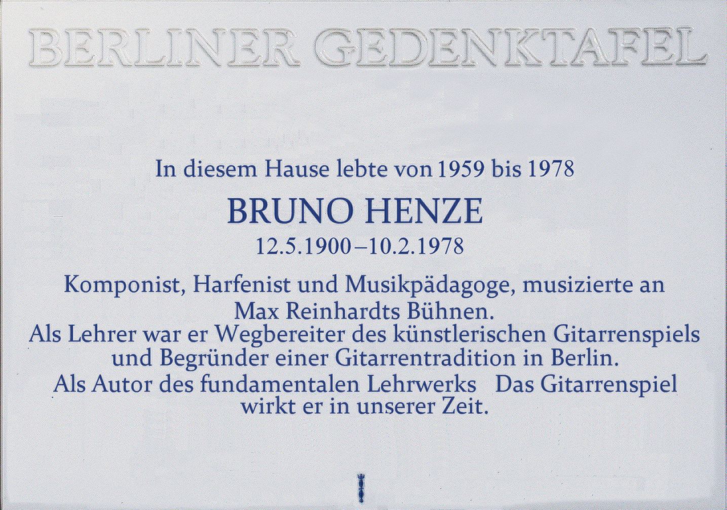 Berlin memorial plaque, Bruno Henze, Yorckstraße 63, Berlin-Kreuzberg, Germany